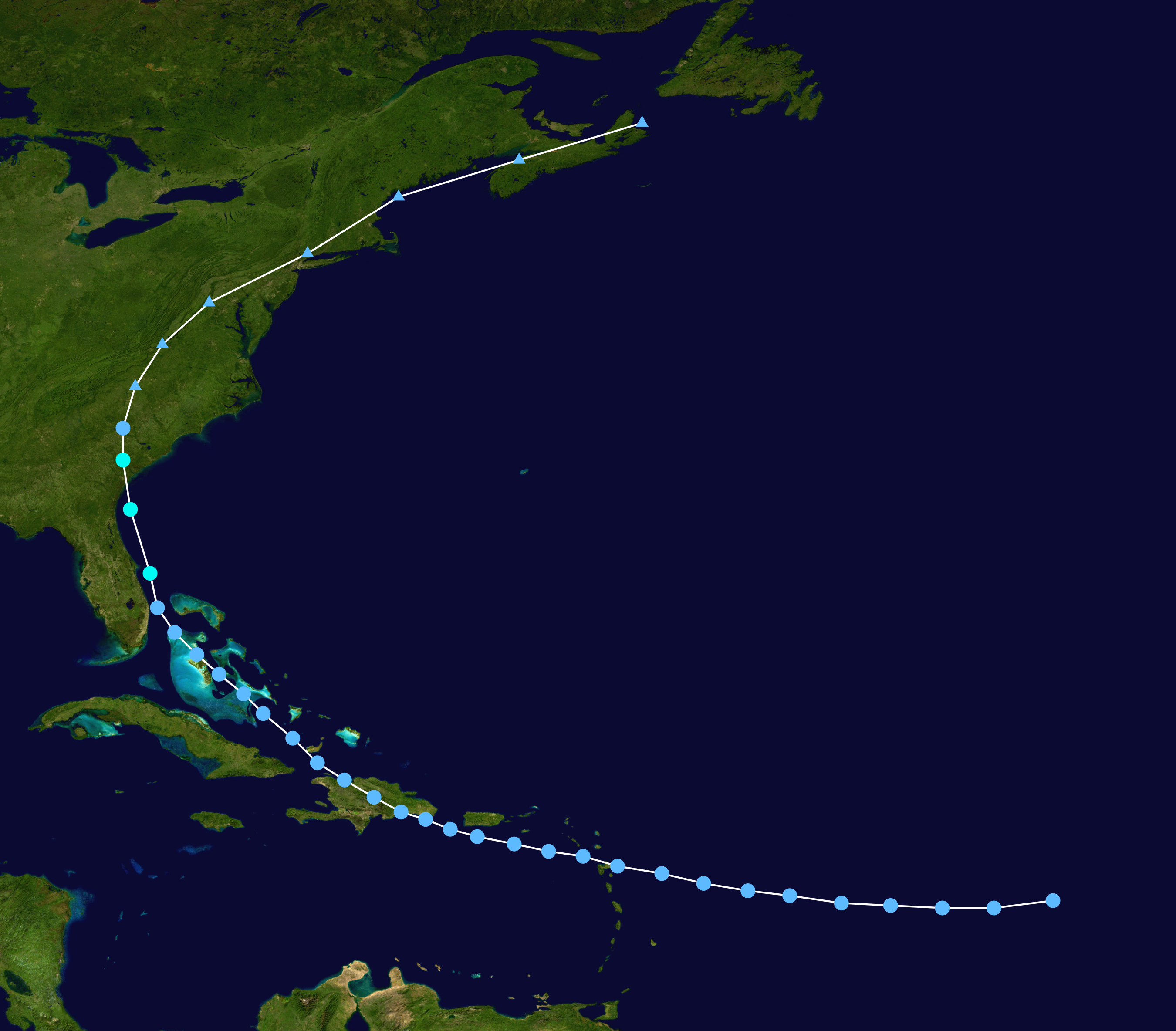 Tropical Storm Chris (1988) track. Uses the color scheme from the Saffir-Simpson Hurricane Scale.